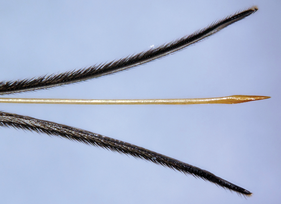 Ovipositor, dorsal aspect, of Scambus calobatus (“planatus” morph) killed within 2 days of egress from an acorn.